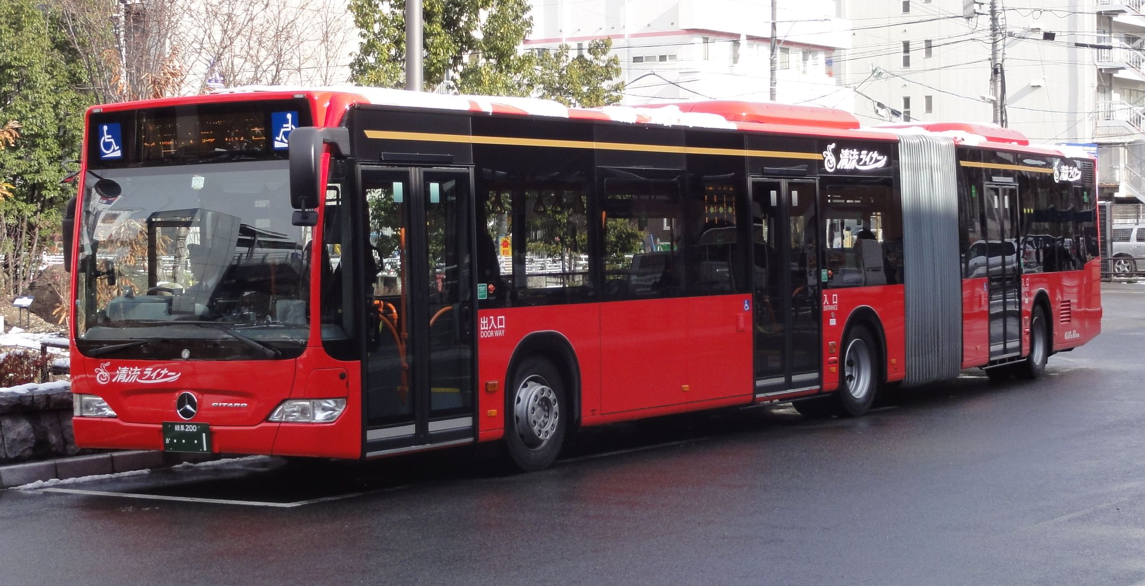 Mercedes-Benz O530 Citaro G bus in Japan. Gifu Bus operator.